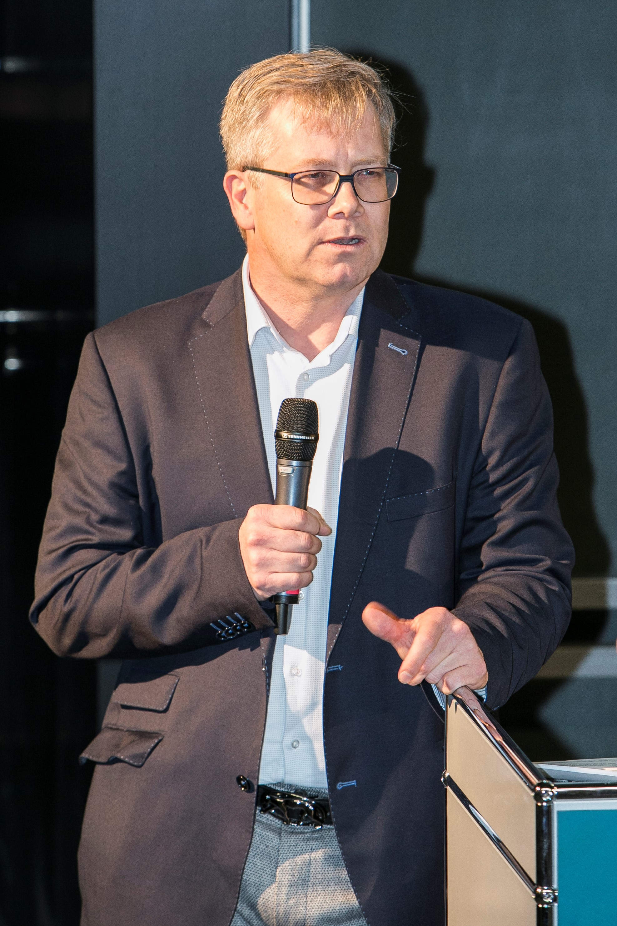 Herwig Baier, Director at the Max Planck Institute of Neurobiology in Martinsried, Germany, during a talk at the institutes' large lecture hall.